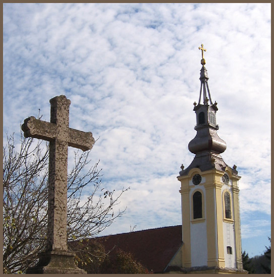 Susek orthodox church